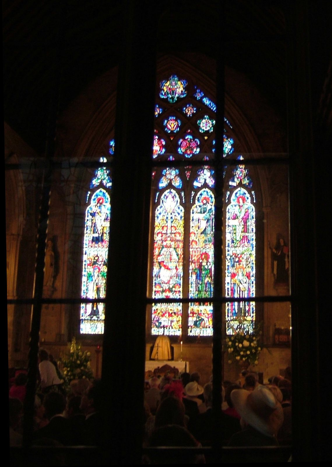 Interior of St. Etheldreda's Upper Church, London, facing East towards the altar.